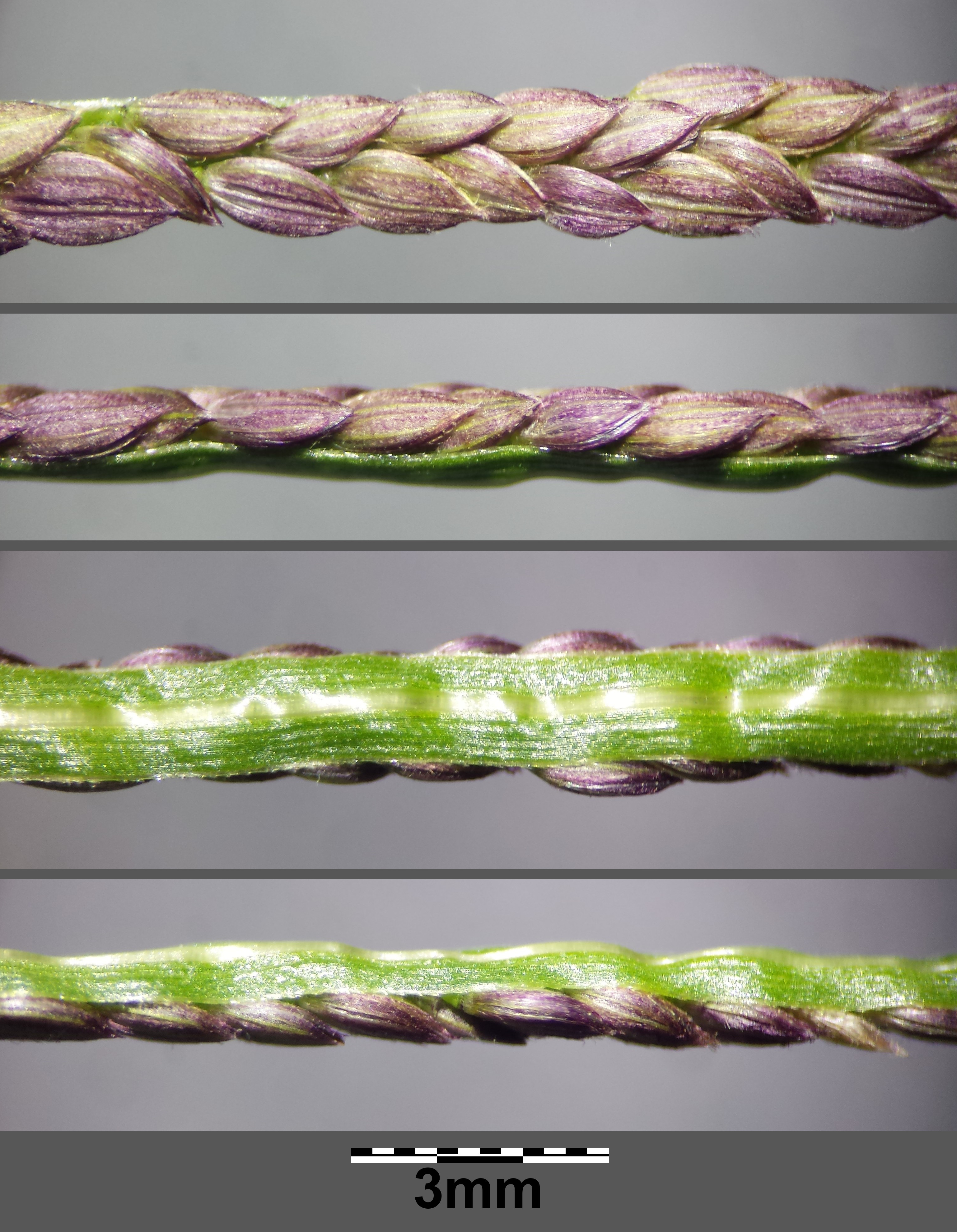 "Spike" (detail) with spikelets Taxonym: Digitaria ischaemum ss Fischer et al. EfÖLS 2008 ISBN 978-3-85474-187-9 Location: Hatzenbach, district Korneuburg, Lower Austria - 190 m a.s.l. Habitat: gap in street surface